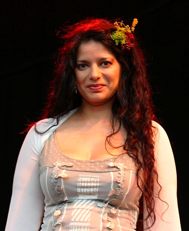 From Mark Bennett: This is an image from a couple of days ago at 'The Big Chill', a wondrous day full of the unexpected and beautiful. Unforgettable. Whilst I was working there 'The Imagined Village' played the main stage and stopped me in my tracks (from rushing about photographing all the stages ... like a madman, lol) ... here is the beautiful Sheila Chandra from that image set.